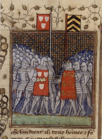 Geoffroy de Charny (left) and King Edward III of England, miniature from a manuscript of Froissart's Chronicles